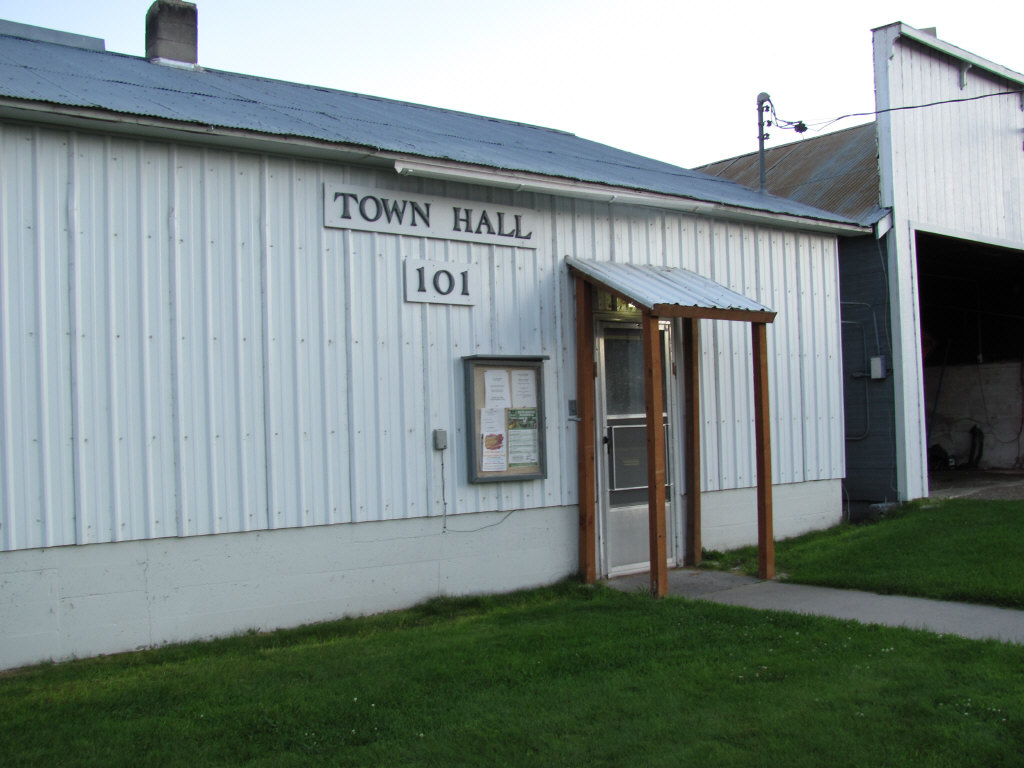 City Hall 101, Riverside, WA.